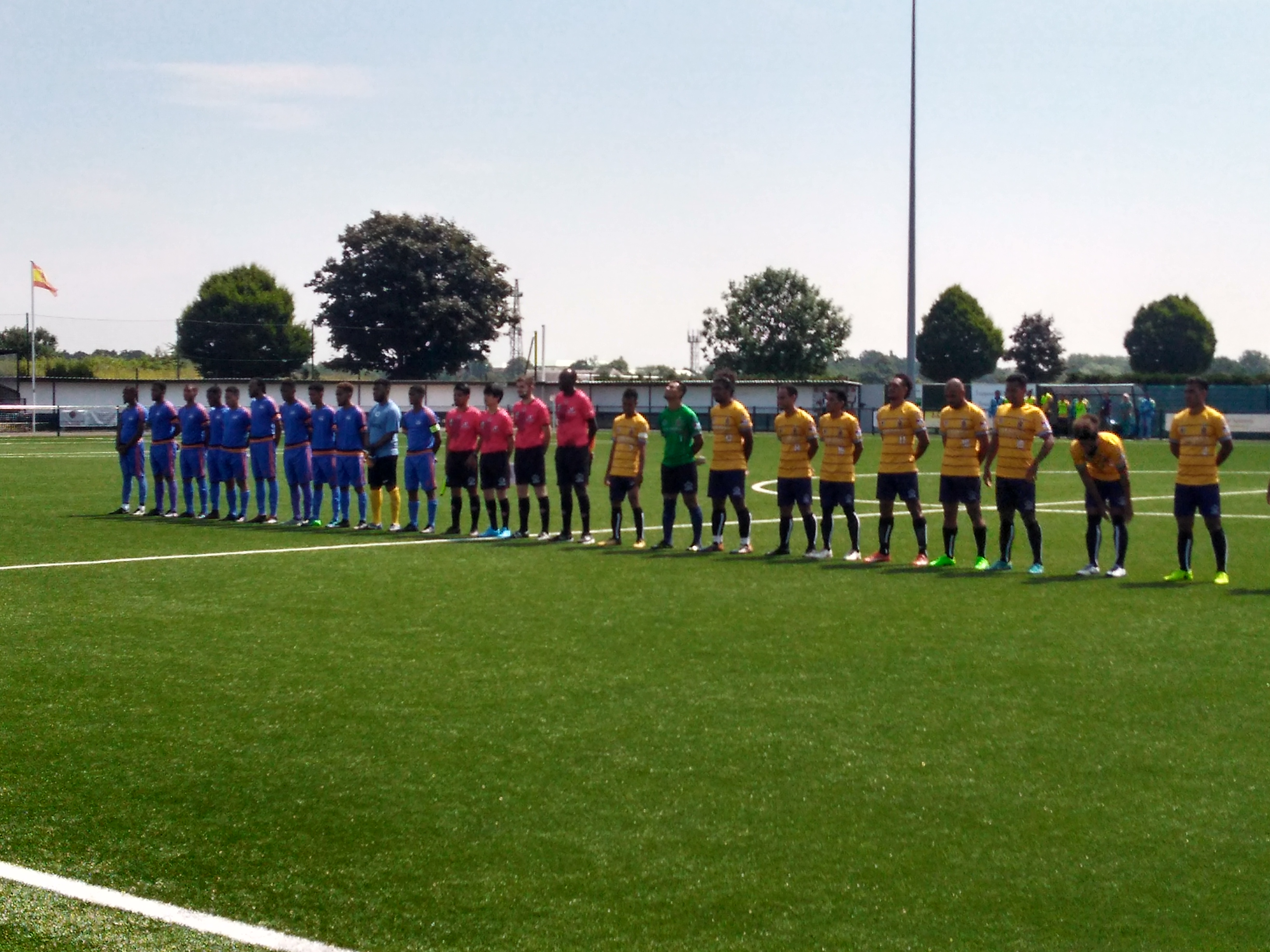 Tuvalu and Chagos Islands national football teams stand for their national anthems, 9 June 2018